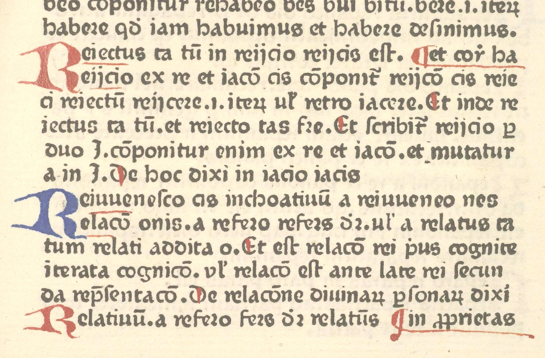 Extract of the Catholicon by Johannes Balbus (died 1298). Print of Gutenberg in 1460